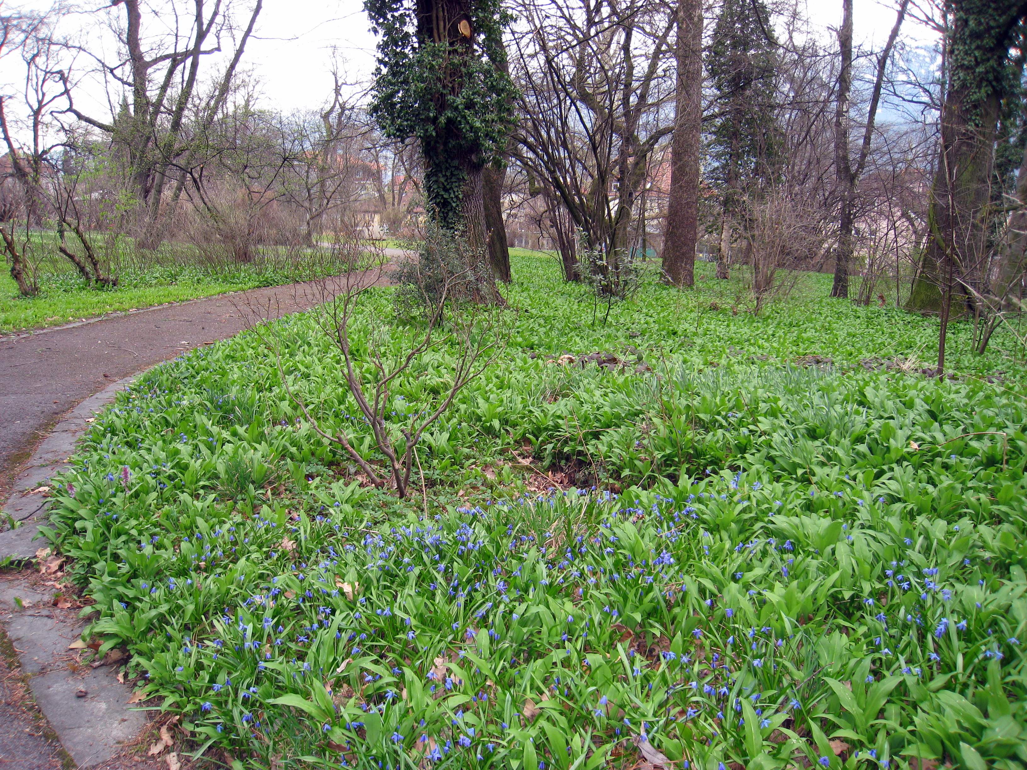 Innsbruck Botanical Garden, Innsbruck, Austria.